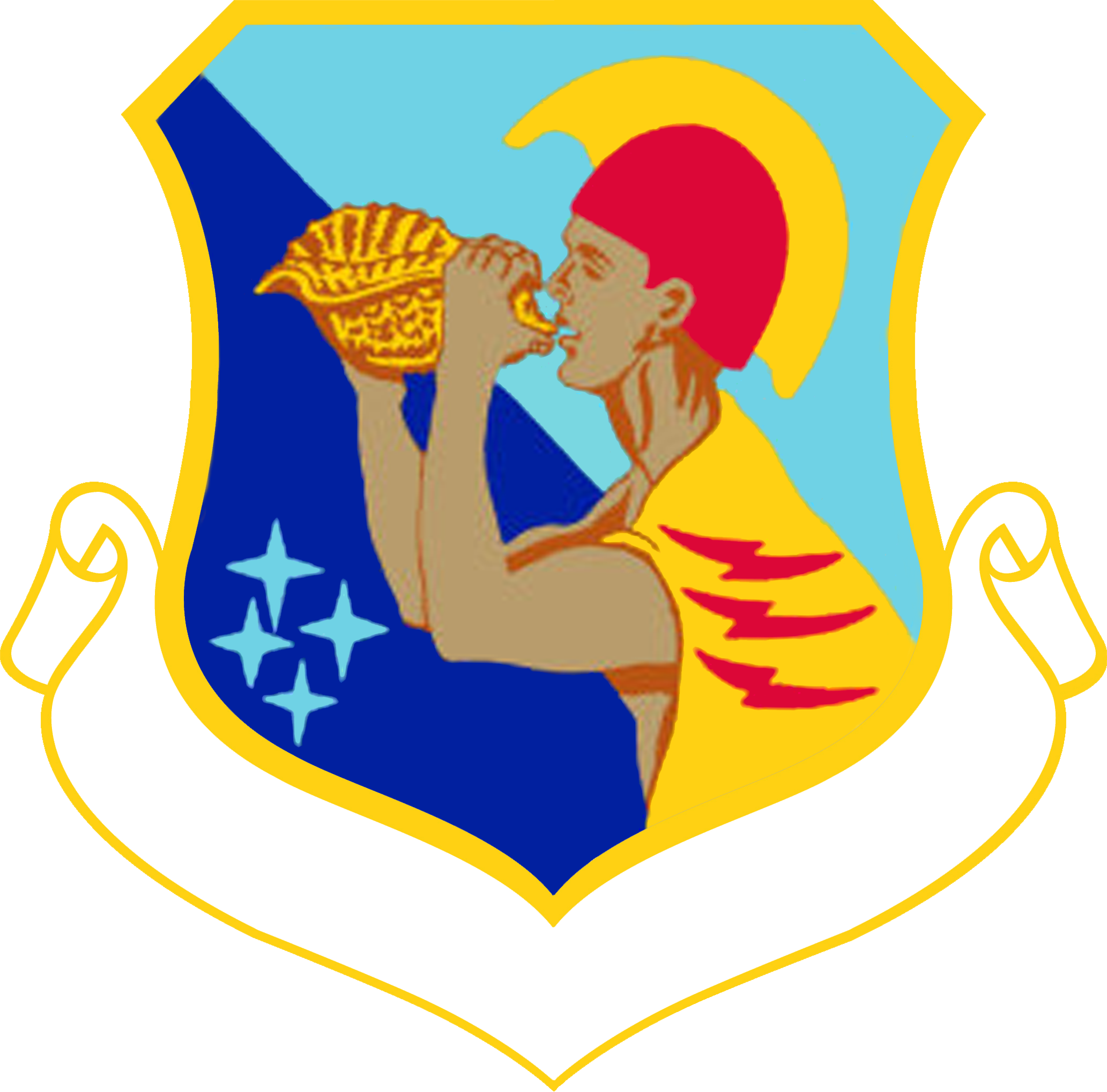 624th Operations Center emblem. Approved in the 1970s for the 1974th Communications Group. Replaced 2 May 2012.